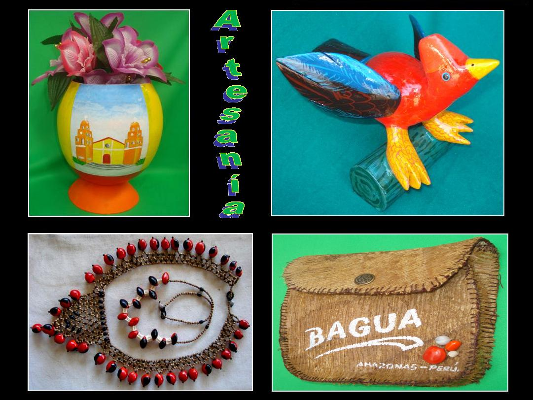 Artesanía de la provincia de Bagua